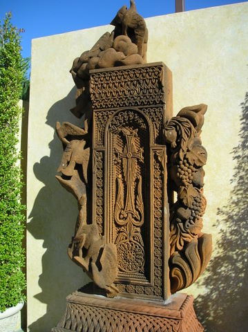 In Boca Raton, Florida: The memorial khachkar (cross stone) to the 1.5 million victims of the 1915 Armenian Genocide by Turkey.